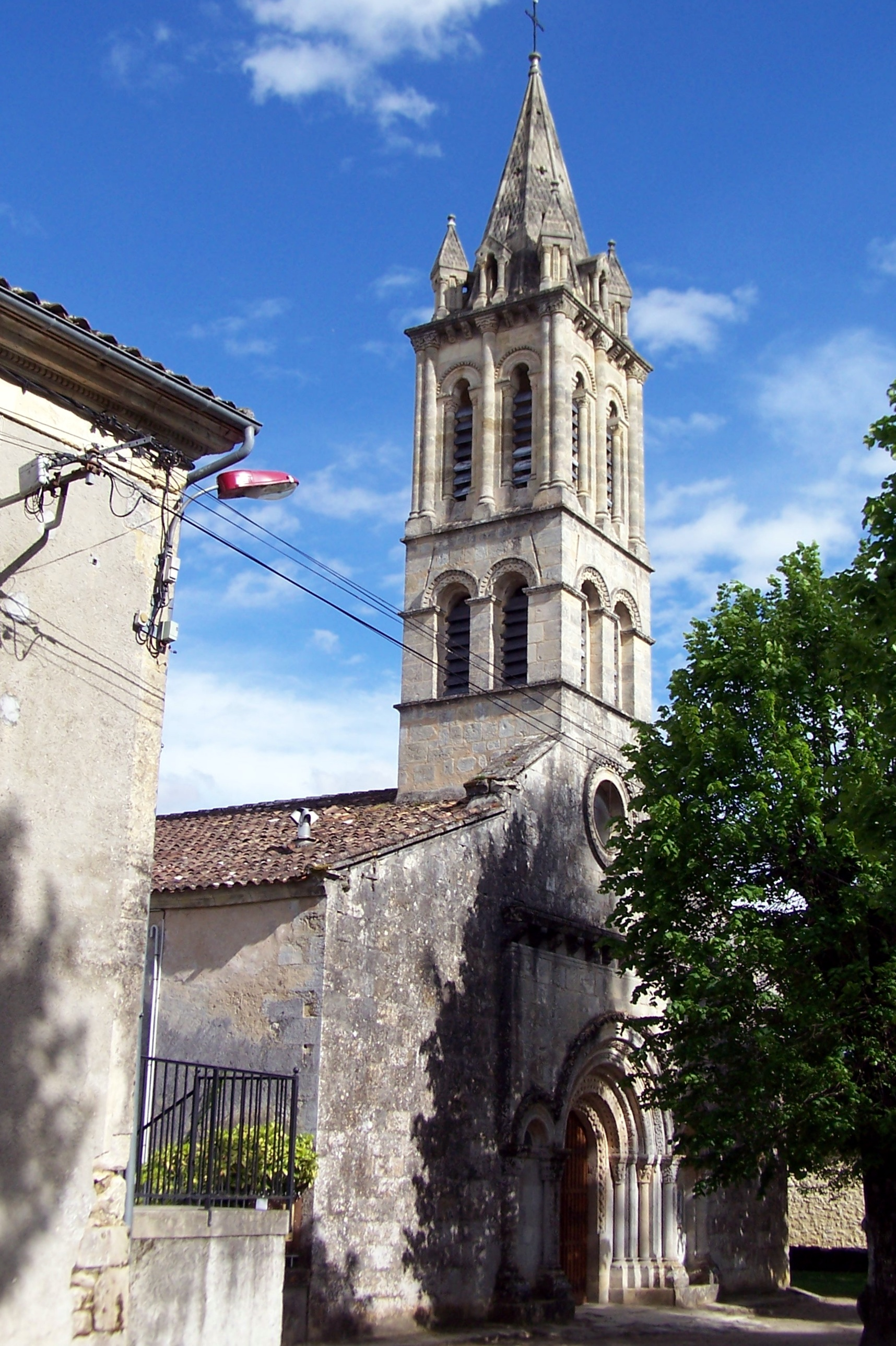 Church Saint-Martin of Cérons (Gironde, France)